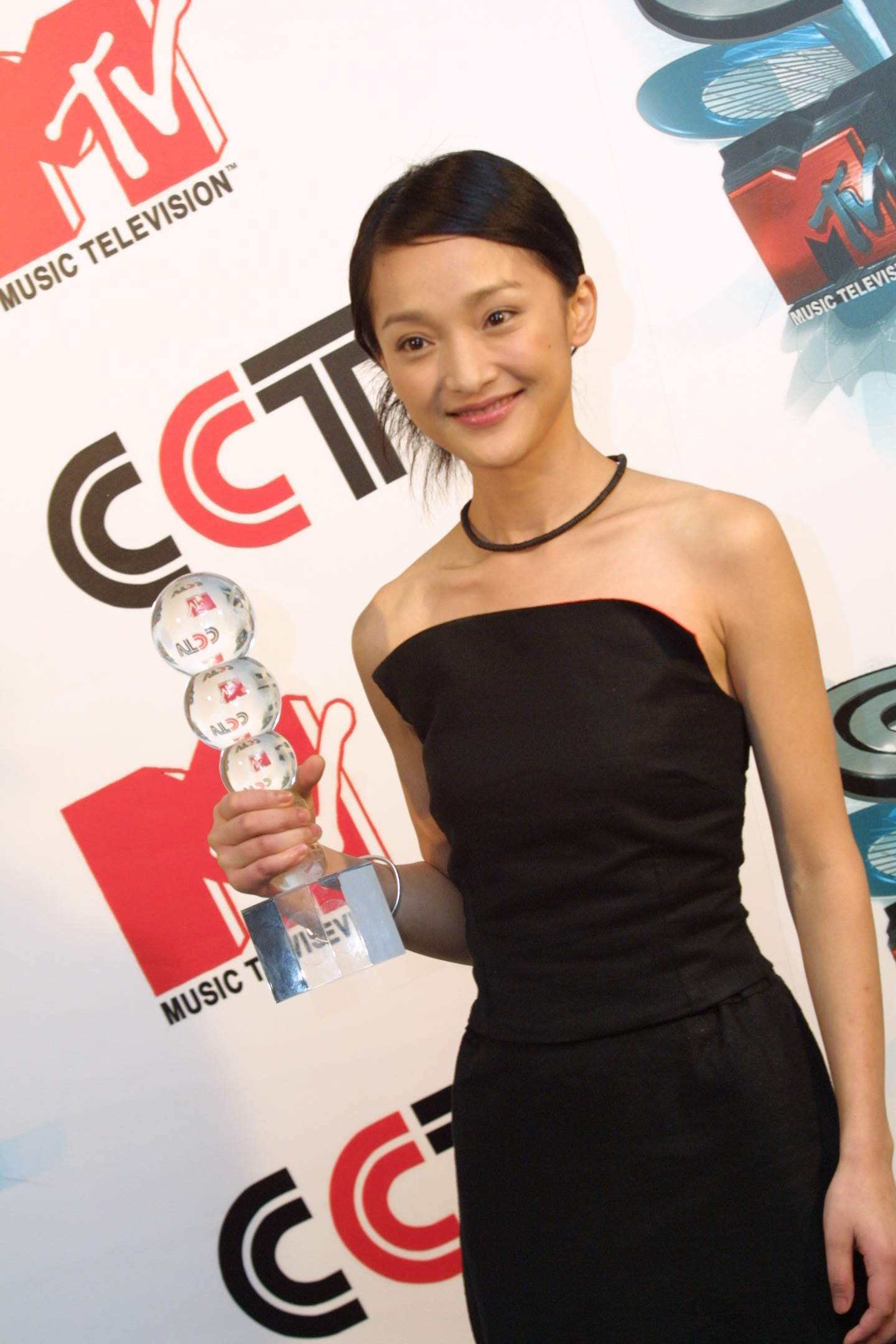 Chinese singer and actress Zhou Xun attended a CCTV-MTV music award ceremony in Beijing in July 2002.